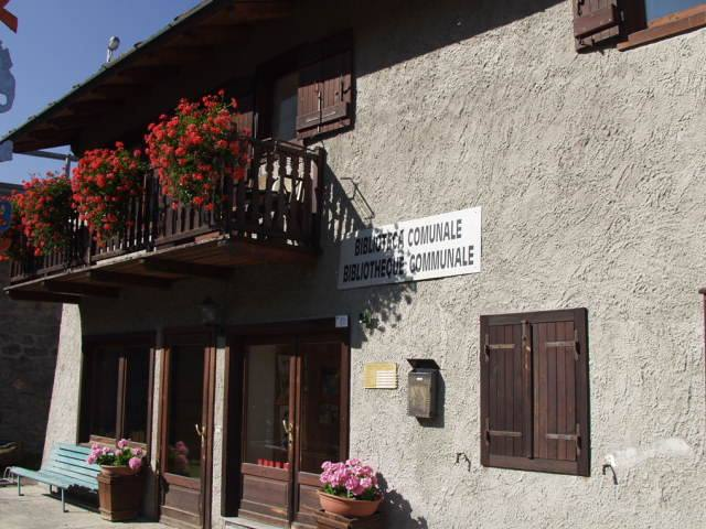 Public library in Étroubles (Aosta Valley, Italy)